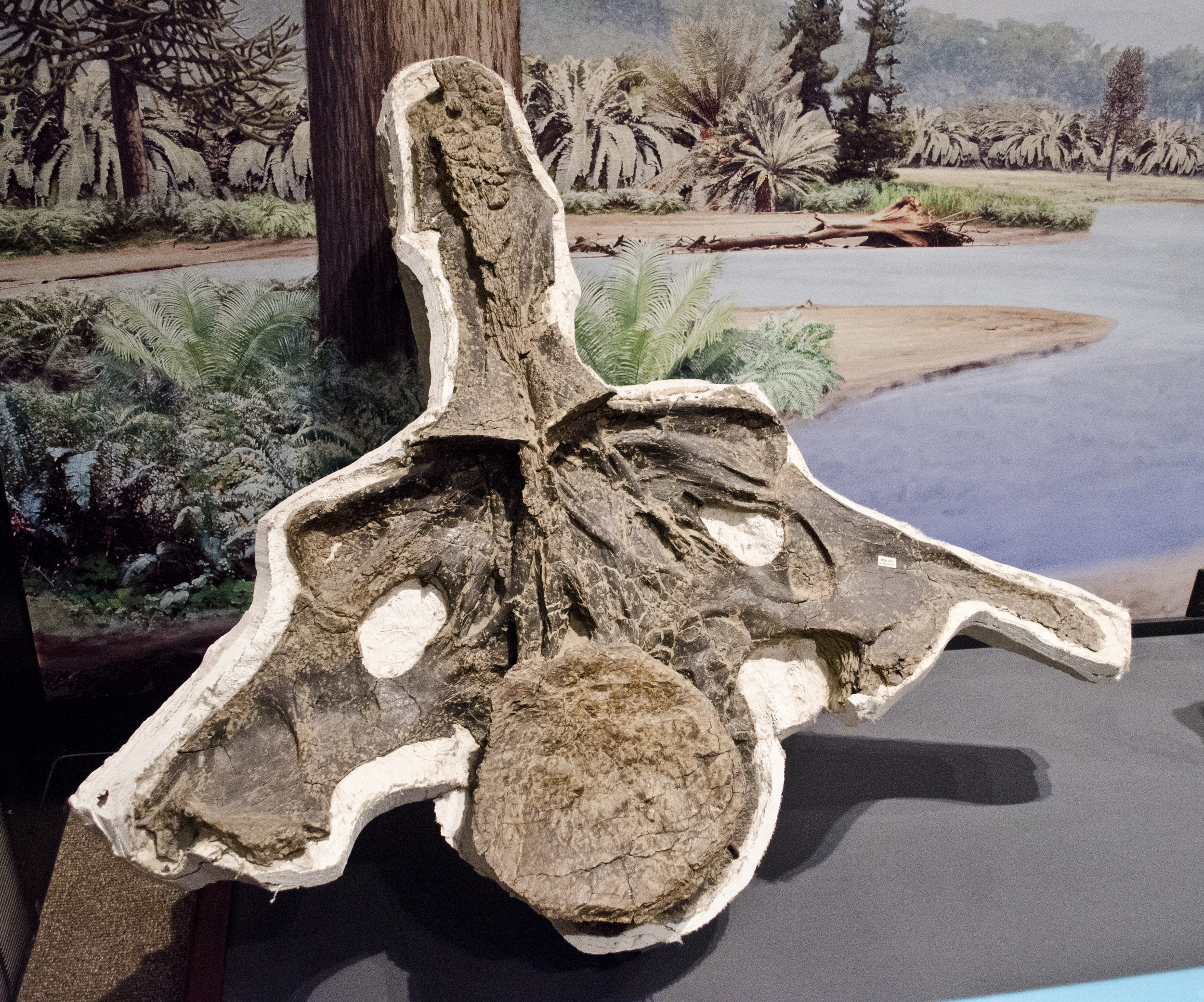 Tail vertebra from the Big Horn Thunder Lizard, on display at the Museum of the Rockies in Bozeman, Montana. This specimen was collected in Big Horn County, Montana. This animal is an as-yet unidentified sauropod.